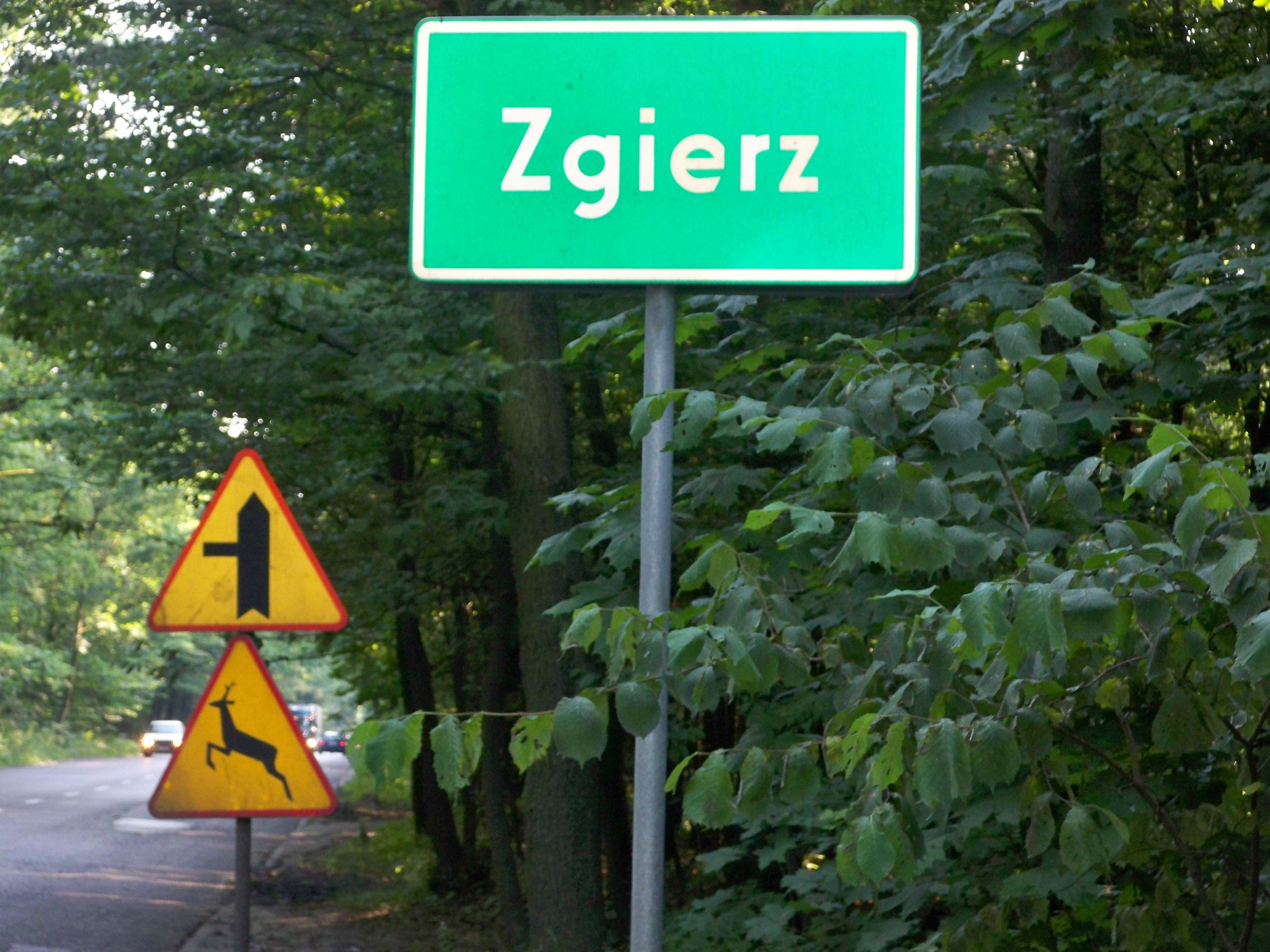 My photo